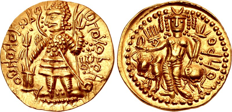 KUSHANO-SASANIANS temp Ardashir – Peroz I Circa CE 255–310